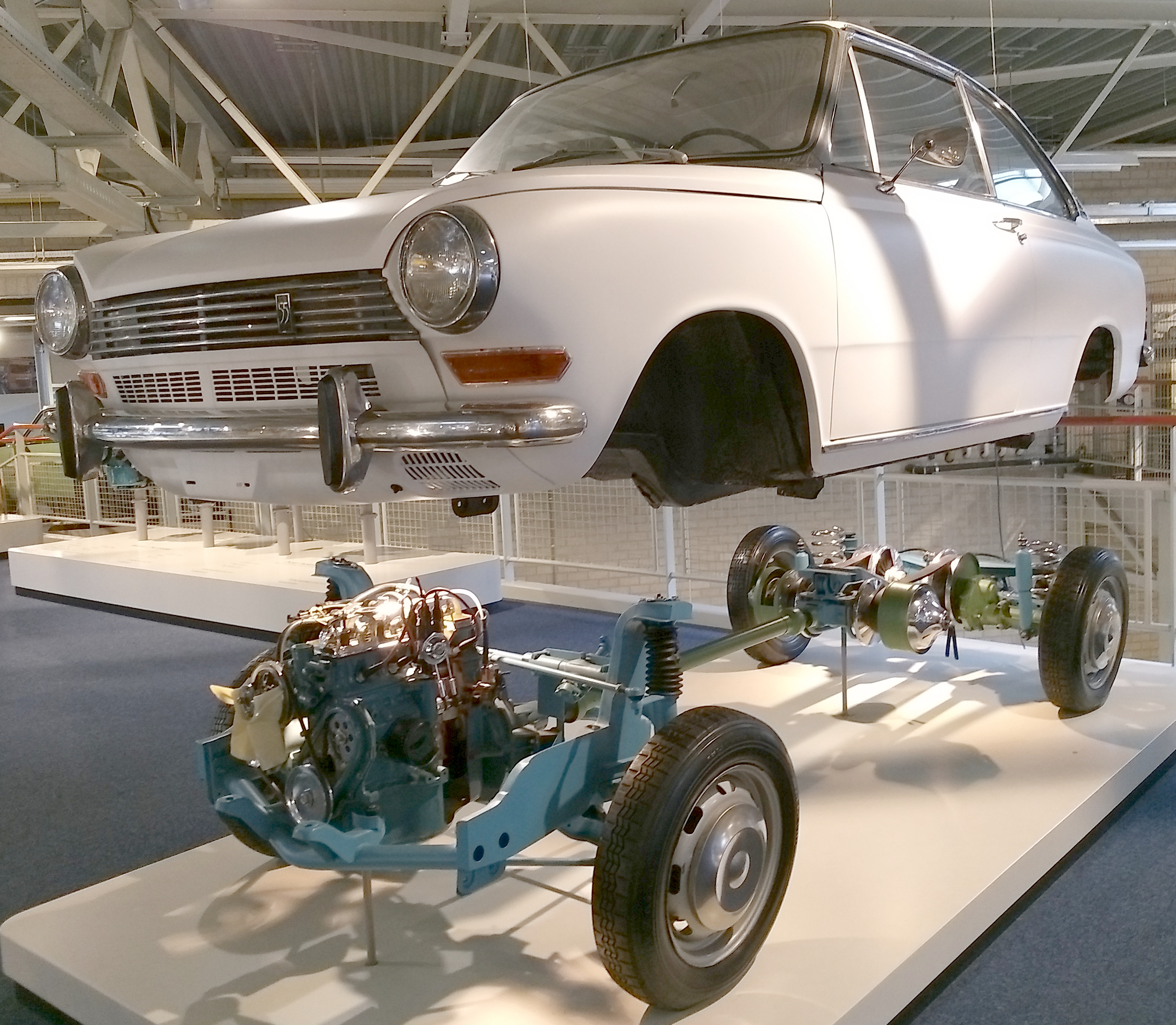 DAF 55, installation at the DAF museum, chassis lifted from frame